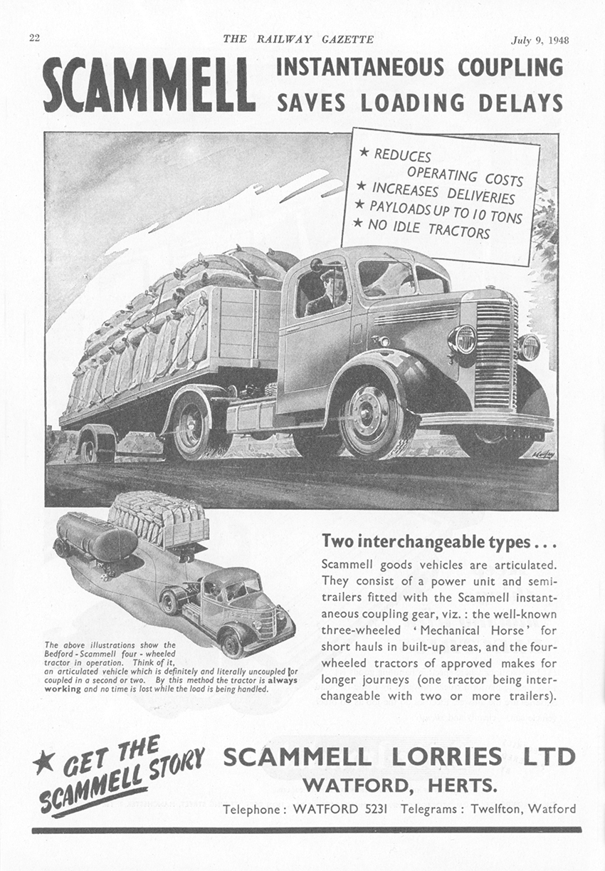 Advertisement for British manufactured Scammell tractor for use in articulate vehicles.